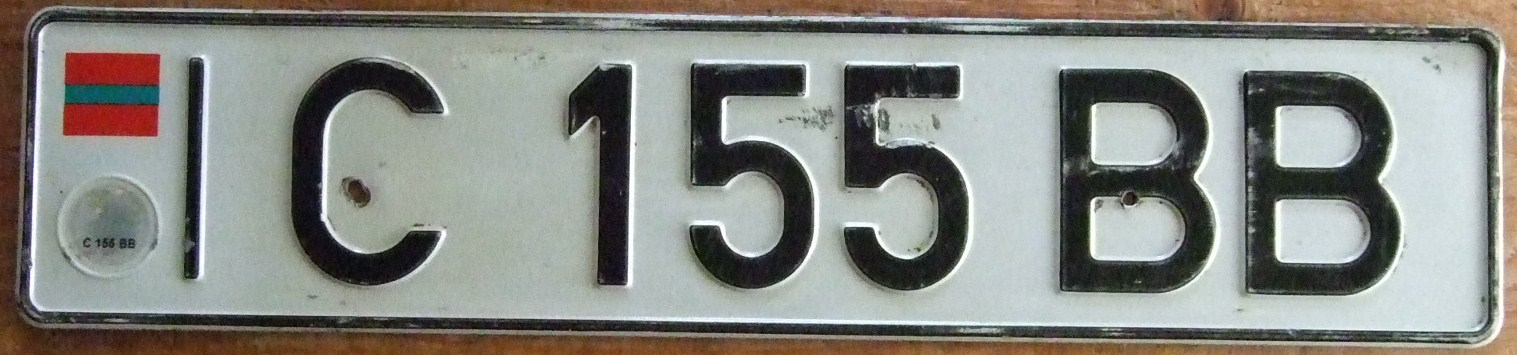 Here is a picture of a Transnistria plate I just added to my collection. Transnistria is a breakaway region of Moldova formerly the Moldavian Soviet Socialist Republic and they declare themselves a country. Transnistria issues their own money, stamps and license plates. The information I have is that the country is recognized by Russia only and it's dictator of this Stalinistic state is Igor Smirnoff.